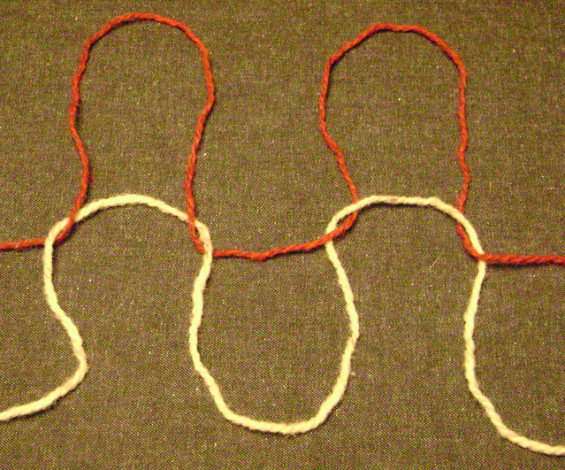 Large-scale illustration of the knit and purl stitches in knitting (on left and right, respectively).